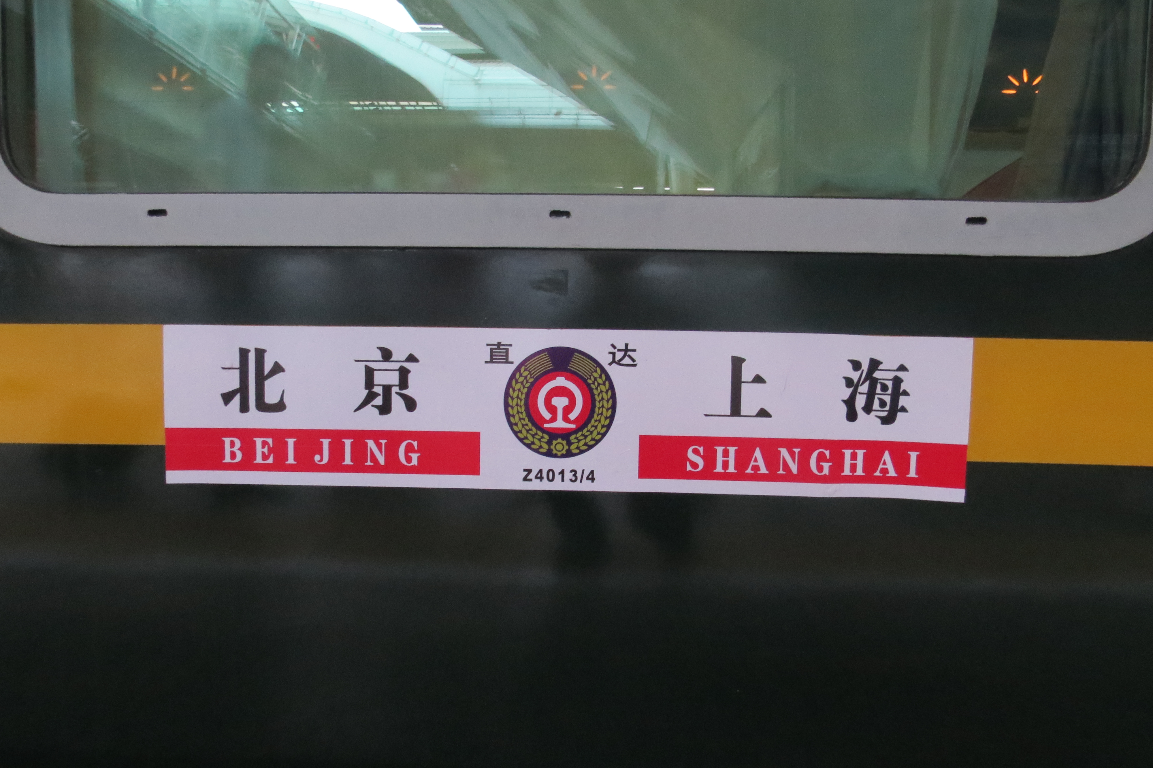 Revised after six years...